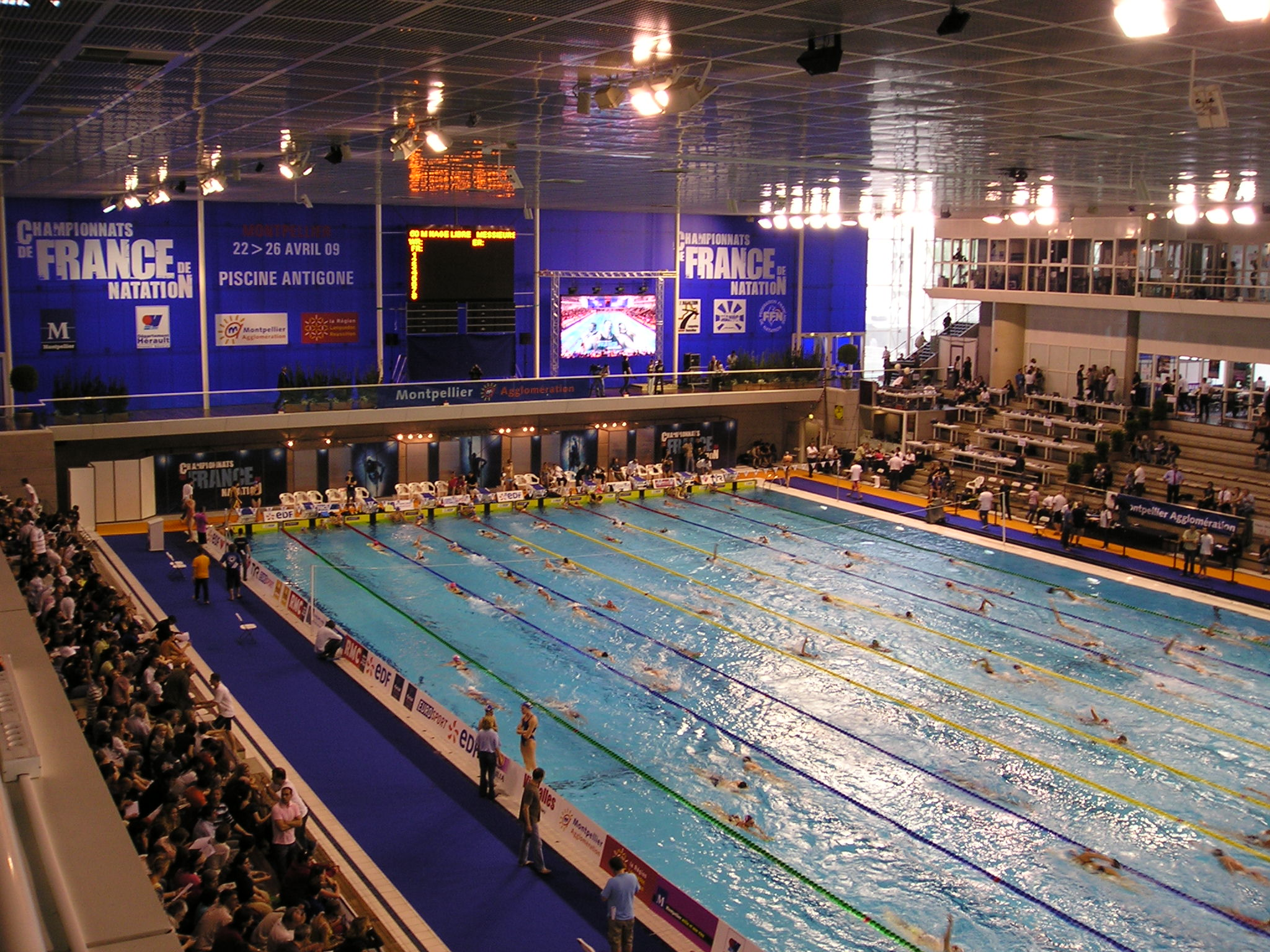 French Swimming Championships, Montpellier, 25 April 2009 afternoon: Antigone swimming pool view from the mezzanin, during the training before the competition.